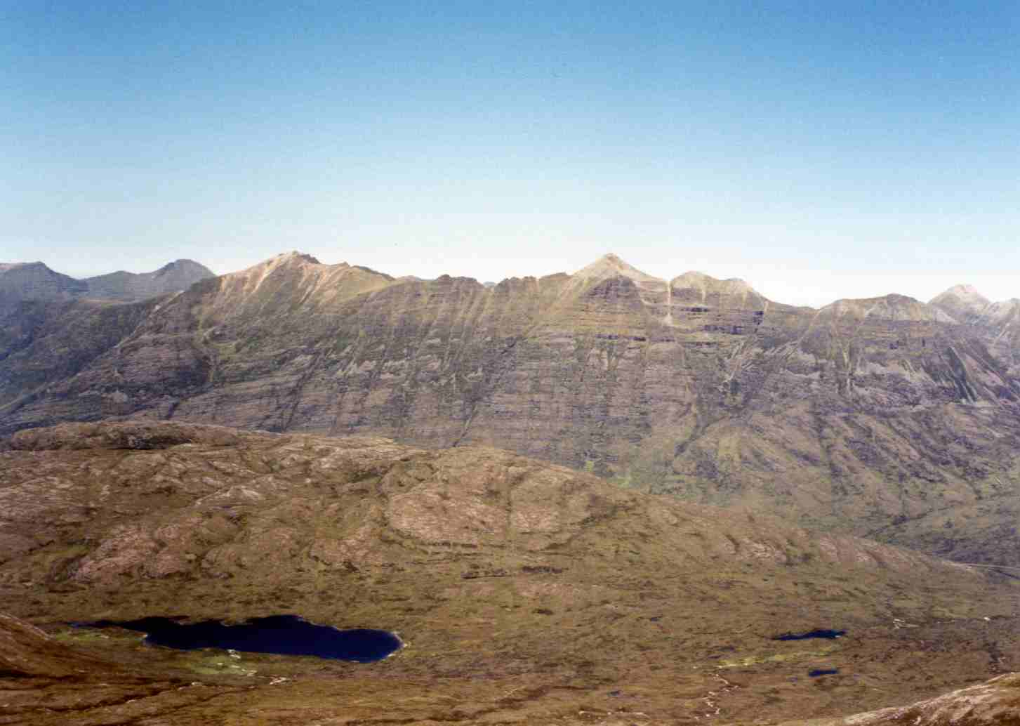 Personal photograph taken by Mick Knapton in June 1997